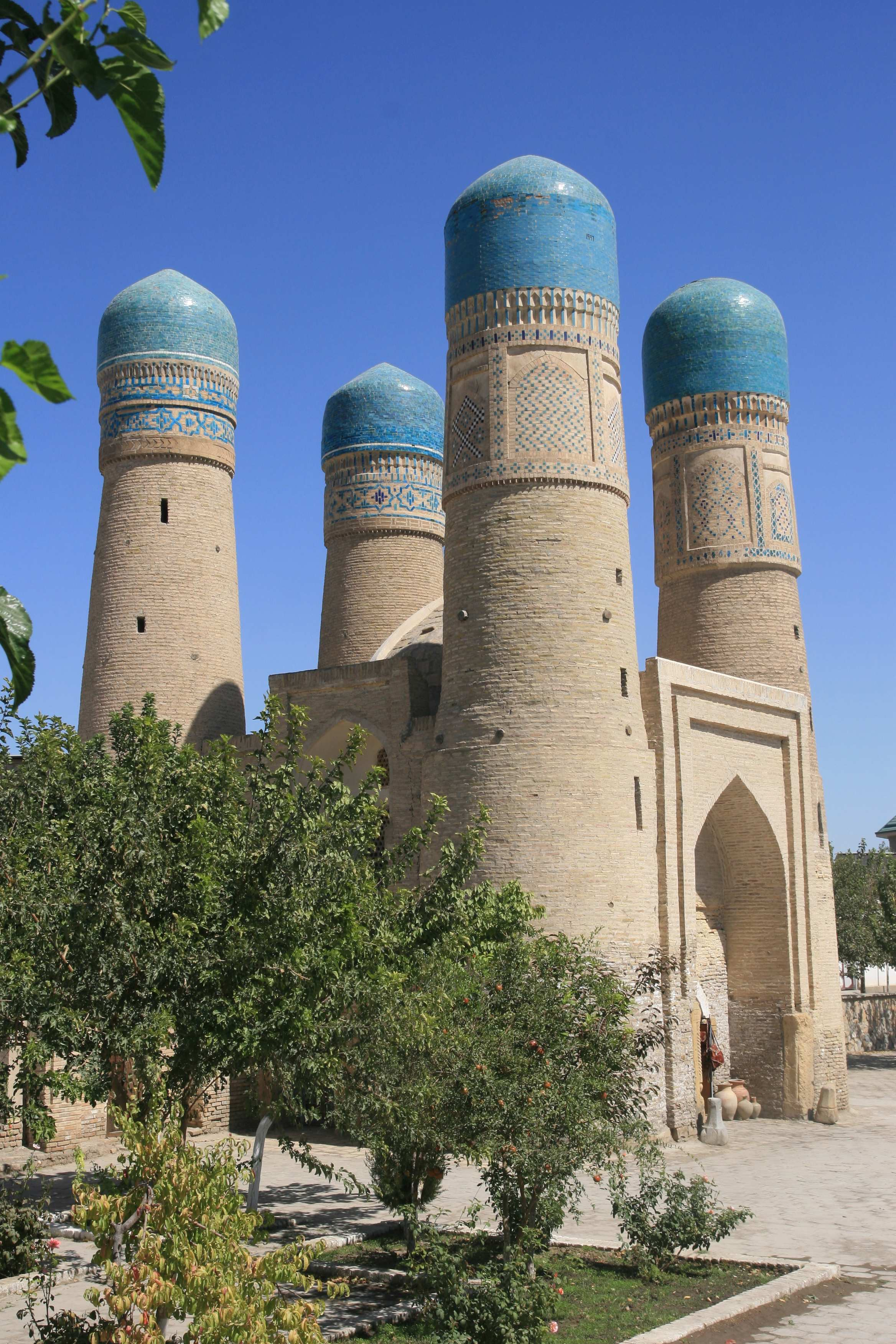 Chahor Minor in Bukhara, Uzbekistan